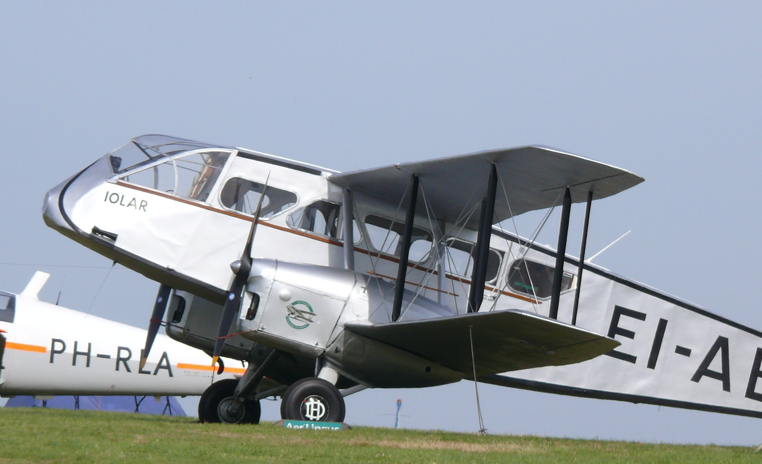 Aer Lingus (Aer Lingus Charitable Foundation) EI-ABI (cn 6105) De Havilland DH-84 Dragon 2 at Schaffen Fly and Drive In 2012.